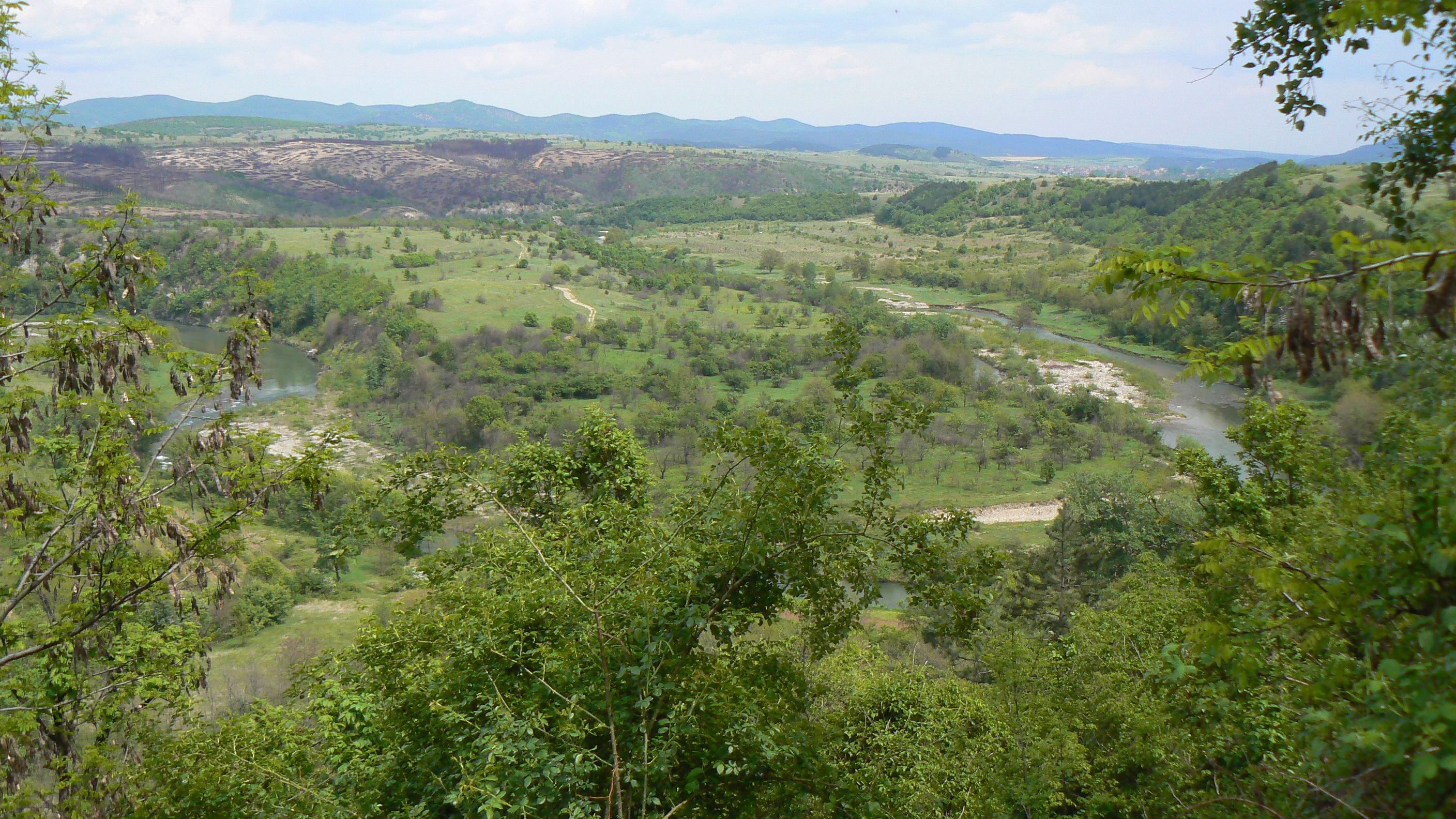 The meanders of Topolnitsa river between the villages of Tserovo and Muhovo